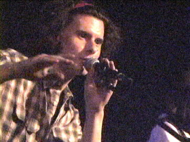 Toby Goodshank in 2002. Video still from PUNKCAST#212 Credit